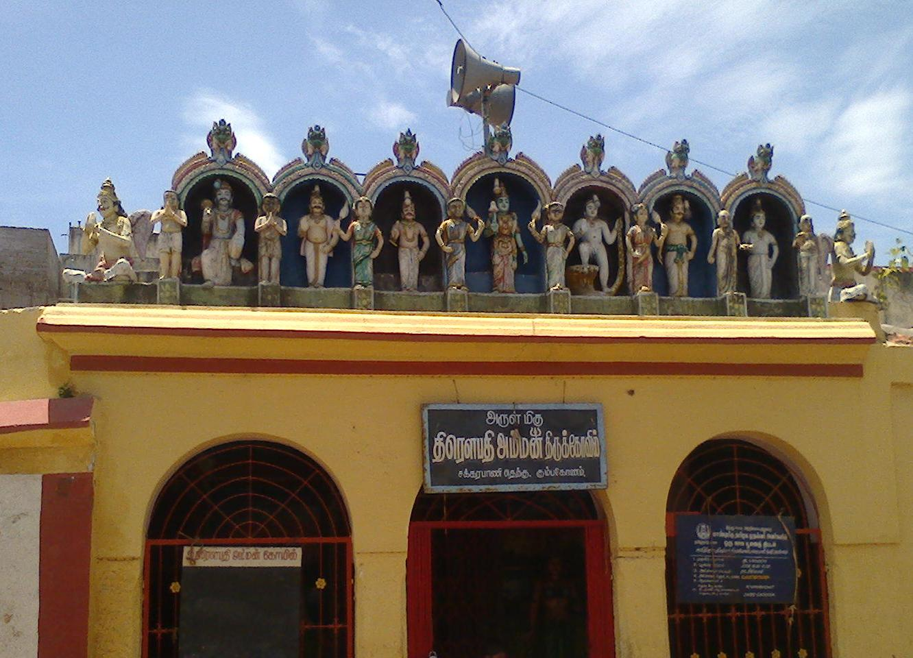 Kumbakonam Chakrapani east Draupathyகும்பகோணம் சக்கரபாணி கீழவீதி திரௌபதியம்மன் கோயில்